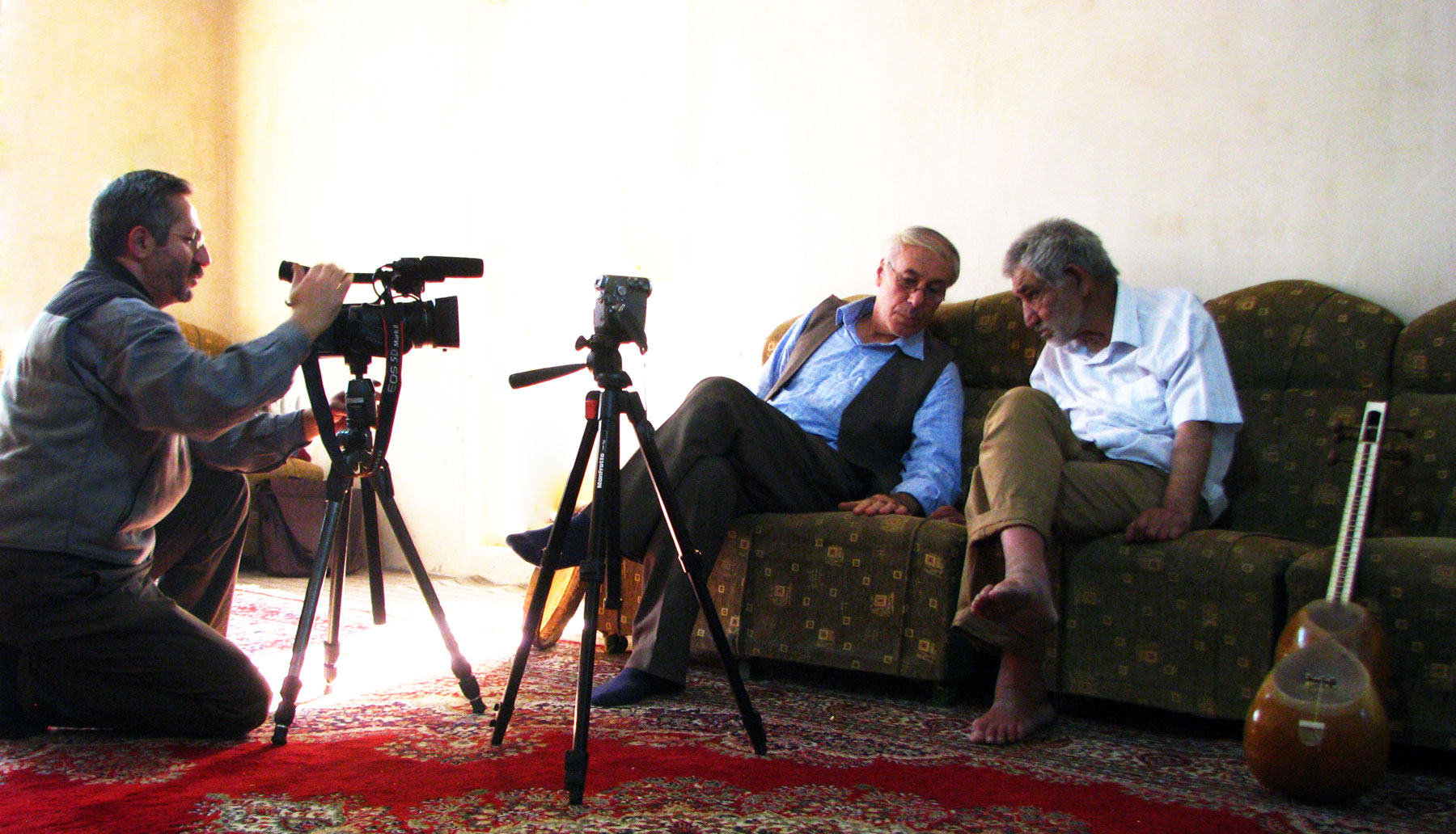 Film of Buyuk Agha 2011